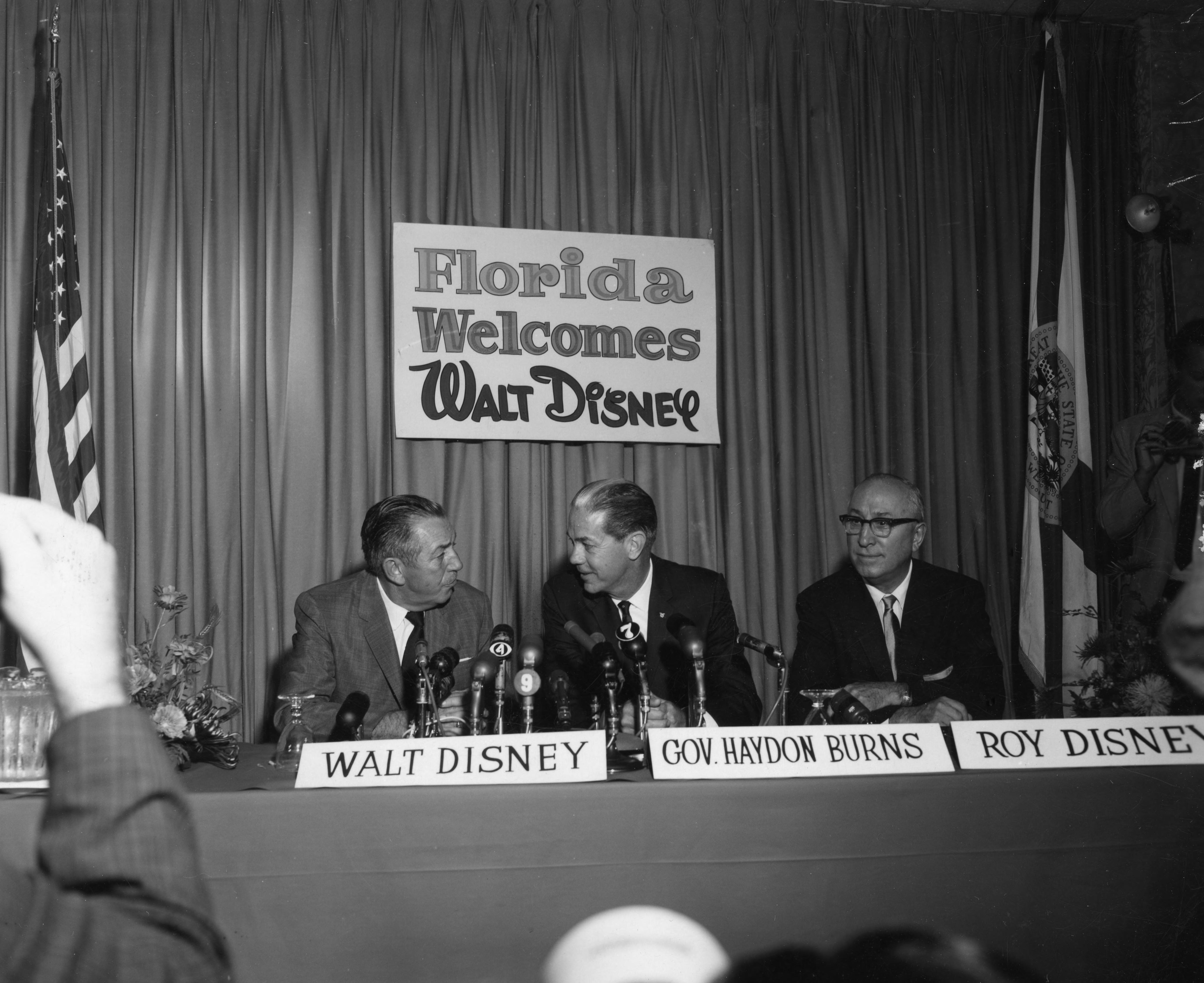 "Walt Disney (1901–66), the American film producer, director, screenwriter, voice actor, animator, and entrepreneur, was best known for creating such iconic characters as Donald Duck and Mickey Mouse, for whom Disney himself was the original voice. In the 1930s and 1940s, he produced full-length animated films that included Snow White and the Seven Dwarfs (1937), Pinocchio (1940), and Bambi (1942). In 1955, Disney opened Disneyland, a theme park located in Anaheim, California that featured many attractions based on Disney film characters. This 1965 photograph shows Disney and his brother Roy (1873–1971) with Florida’s Governor W. Haydon Burns (1912–87), announcing plans to create a Disney theme park in the state. Walt Disney World opened in 1971. Located just southwest of Orlando, Florida, the attraction grew to become the largest resort in the world, covering 47 square miles (122 square kilometers) and encompassing four theme parks, two water parks, a wilderness preserve, and numerous hotels."